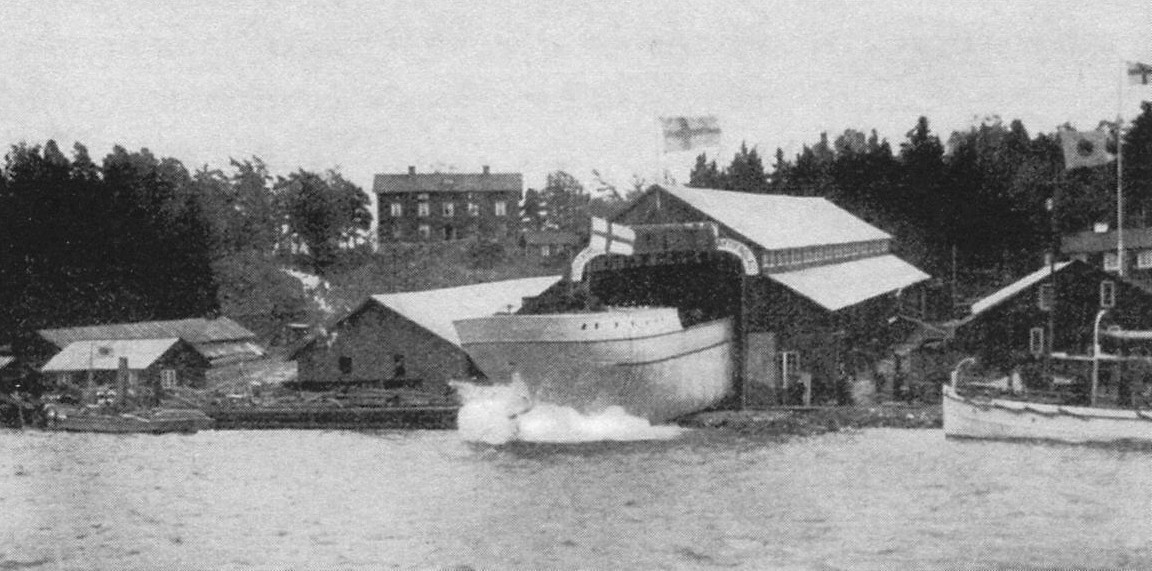 Sjösättning av S/S Thebe 1918 på Sätra vaRv